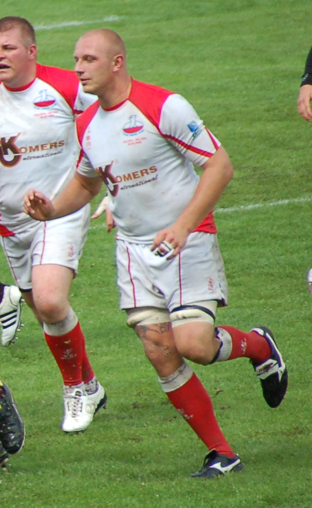 Polish rugby union player Kacper Ławski.